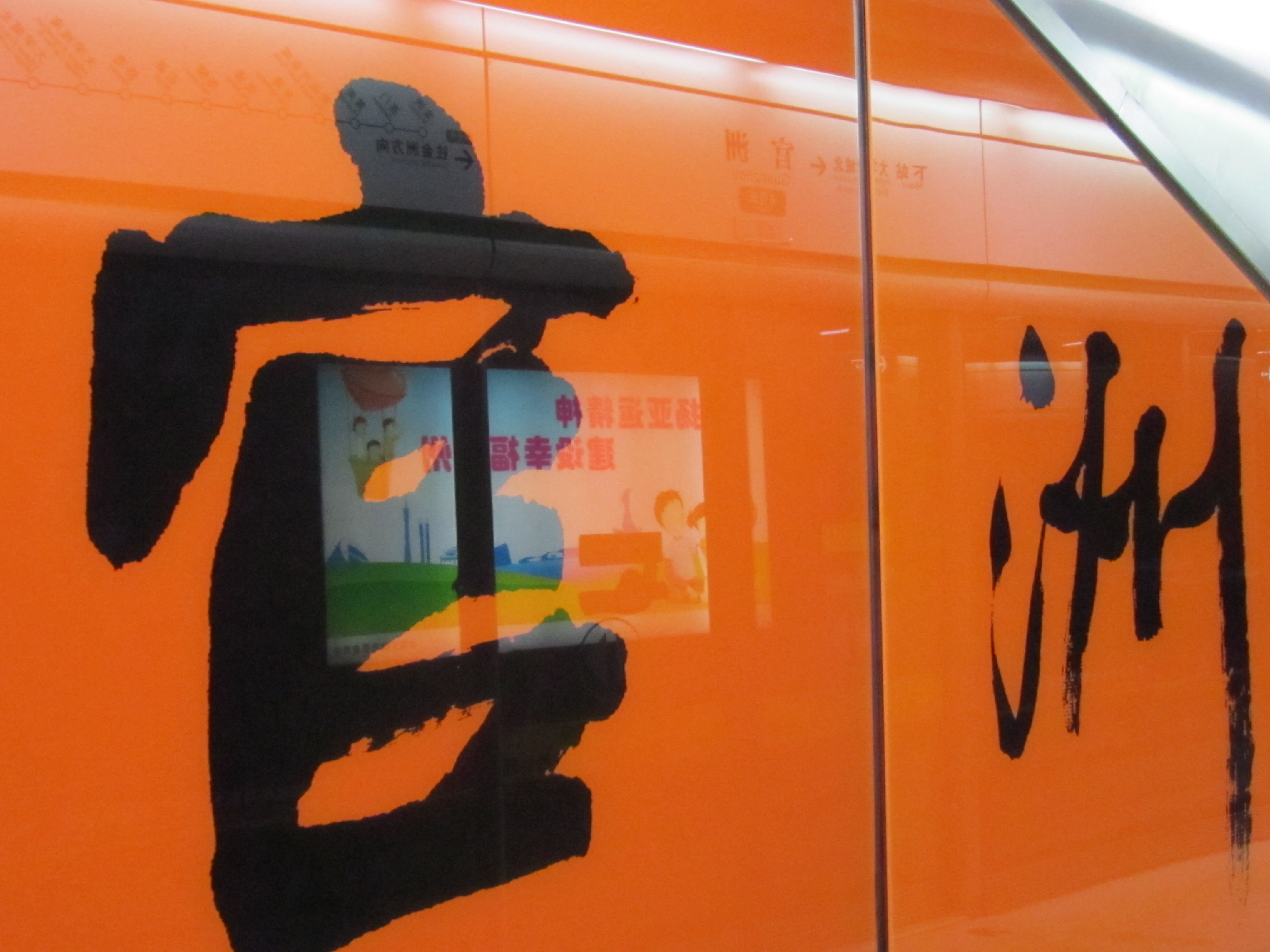 Guangzhou Metro Line 4 Guanzhou station calligraphy